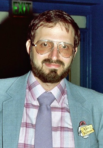 Photo of Marv Wolfman at the San Diego Comic Convention.